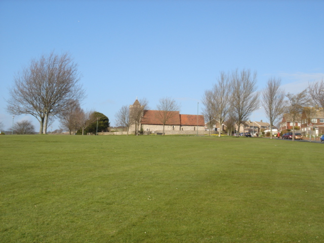 St Helen's Church, Hangleton, Brighton & Hove, England. Viewed from the south across the open land there.